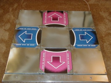 Author: Dennis Gee Aside from some minor differences, the homemade metal pad displayed here is the closest to a single arcade pad.